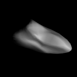 3D convex shape model of 3103 Eger, computed using light curve inversion techniques. J. Hanuš, J. Ďurech, M. Brož, B. D. Warner (June 2011). "A study of asteroid pole-latitude distribution based on an extended set of shape models derived by the lightcurve inversion method". Astronomy and Astrophysics 530: A134. ISSN 0004-6361. arXiv